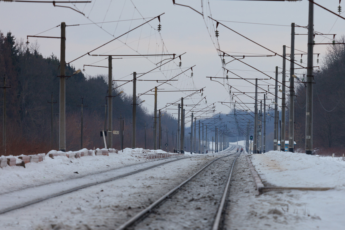 Litky railway halt, South-Western Railway, Ukraine